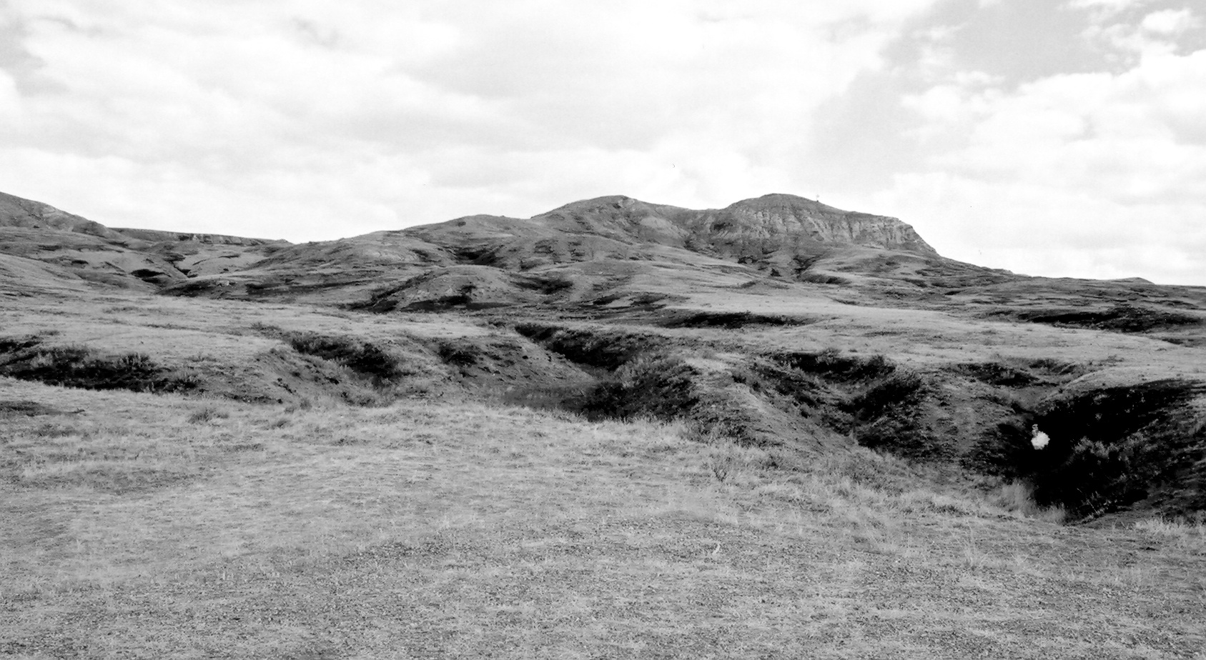 Badlands south of Val Marie, Saskatchewan, Canada